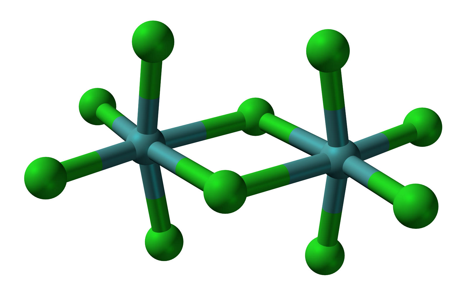 Ball-and-stick model of the molybdenum(V) chloride, Mo2Cl10, from the crystal structure. X-ray crystallographic data from Acta Cryst. (1959). 12, 723-726.